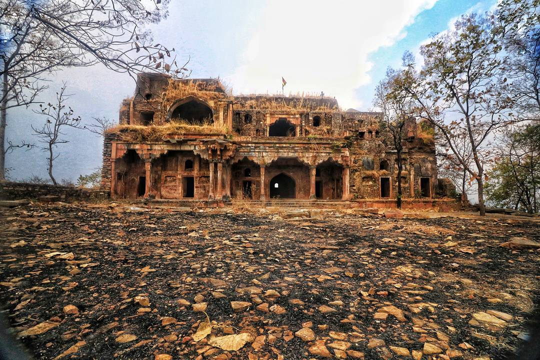 Ginnorgarh Fort is about 60 kns from Bhopal, inside the Ratapani Wildlife Sanctuary and is one of the most amazing architectural splendours one can imagine, with a beautifully romantic history behind it. Built at the pinnacle of a treacherous hill, deep inside the jungle... where every stone that built the fort itself, has a story to tell, of a bygone era, ...now reclaimed by the forest ...forever lost in time. Built maybe more than 800 years before.